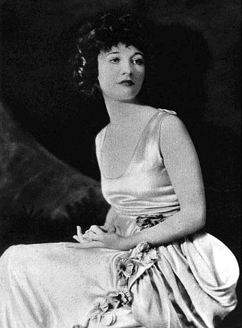 Actress Betty Compson circa 1920